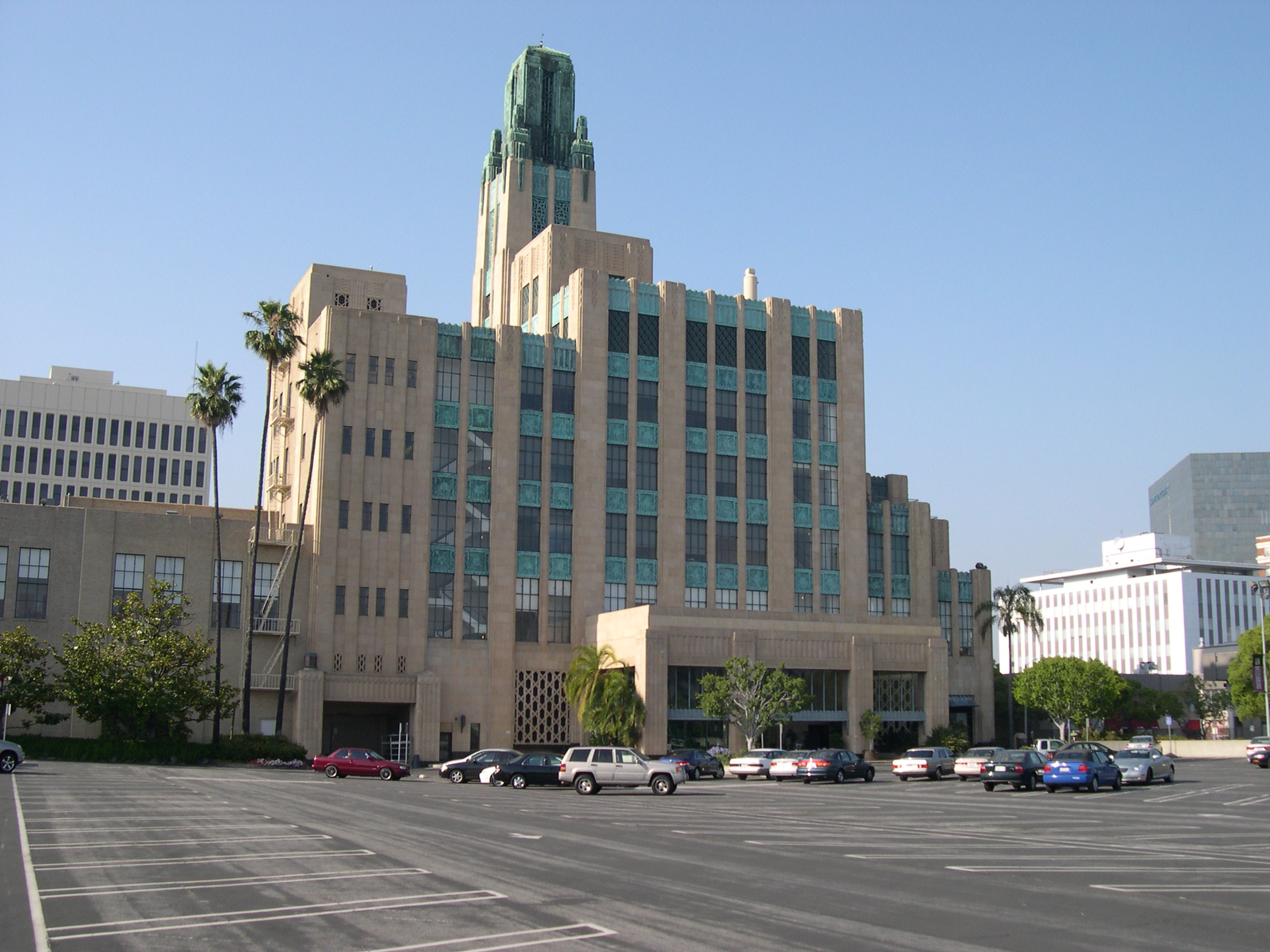 Bullocks Wilshire building photographed from the rear, in what is now the parking lot for Southwestern Law School.